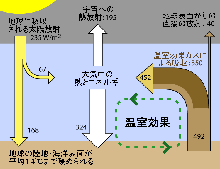 A simple figure of greenhouse effect and radiation.(Japanese version)